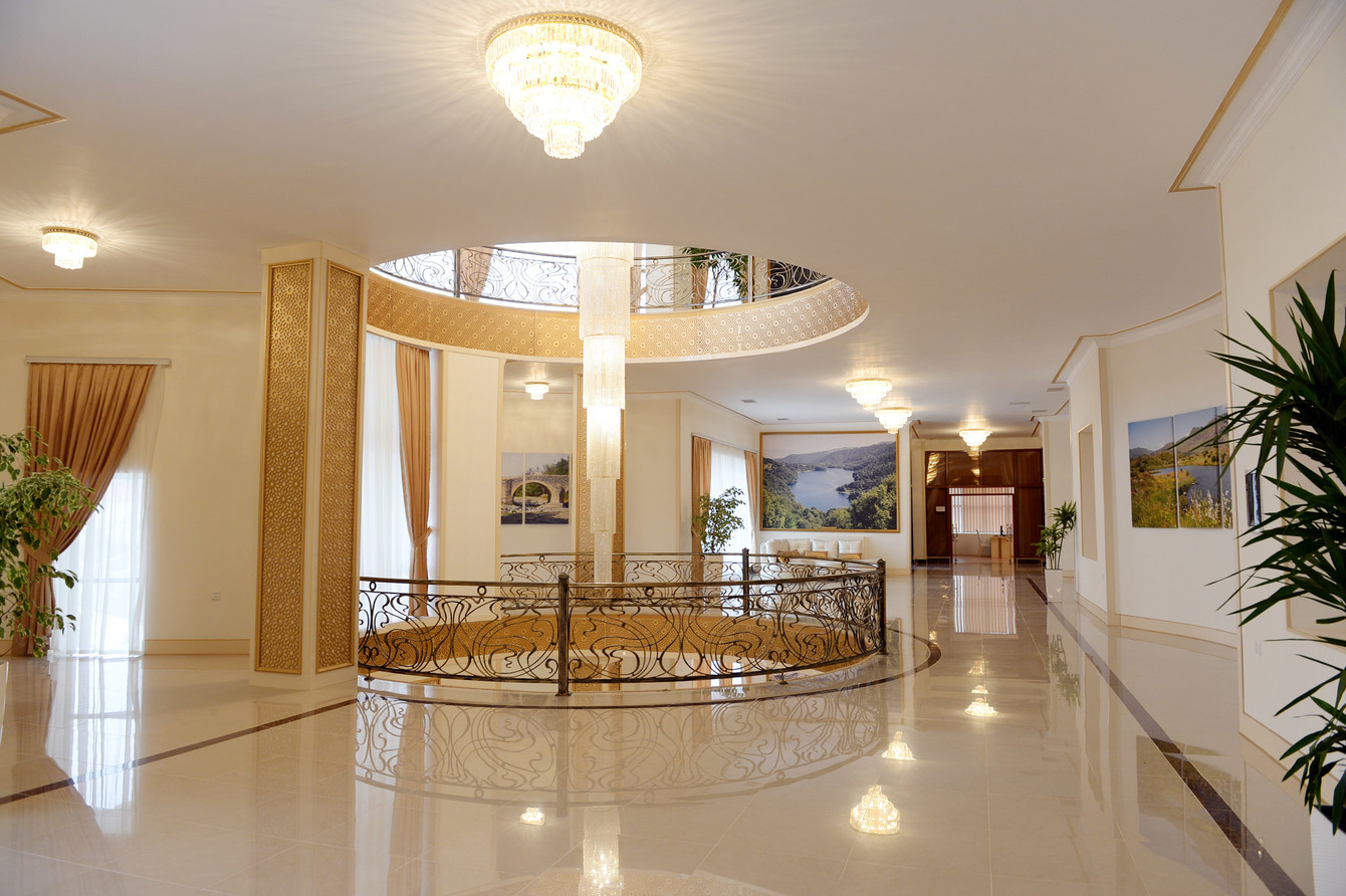 Ilham Aliyev attended the opening of the Heydar Aliyev Center in Goygol